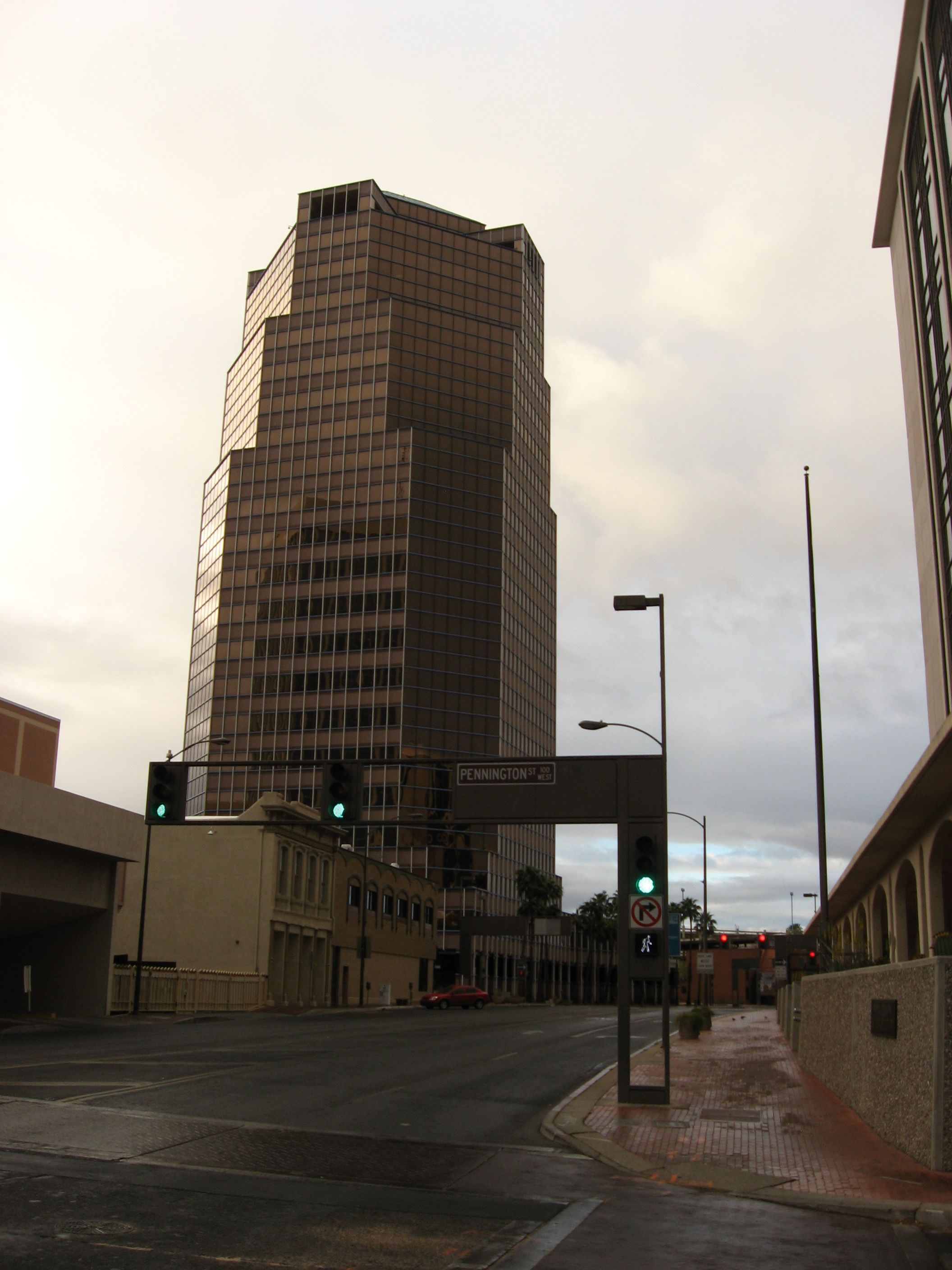 The UniSource Energy Tower is the tallest building in Tucson, Arizona and 13th tallest in Arizona. The building is 330 feet tall and 25 floors. It was designed by Fentress Architects in 1988. UniSource Energy only occupies one floor of the building compared to the 10 in 1988. The building will no longer hold the tallest in Tucson title when Century Tower is built in coming years. The building has three low rise cabs, four high rise cabs, and two parking garage shuttle elevators.